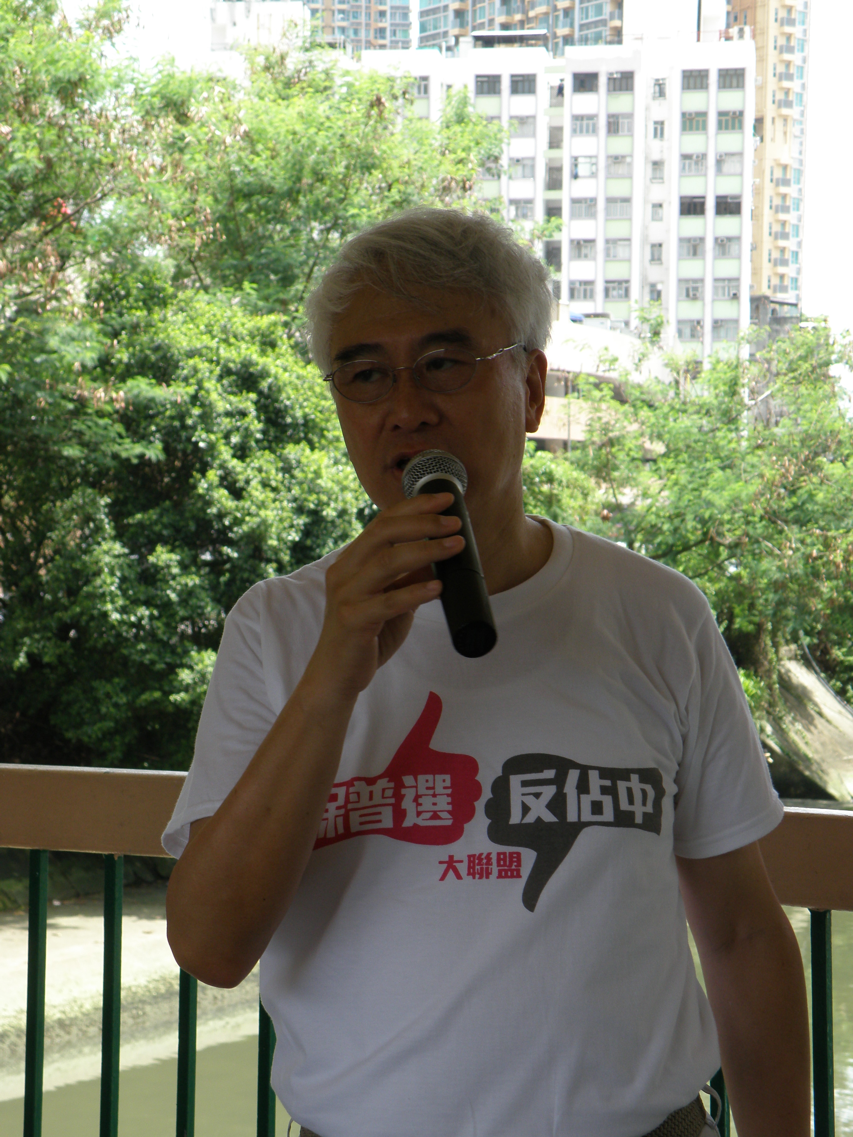 Robert Chow, convener of "Slient Majority", oppose to Occupy Central with Love and Peace, person of Pro-Beijing camp.